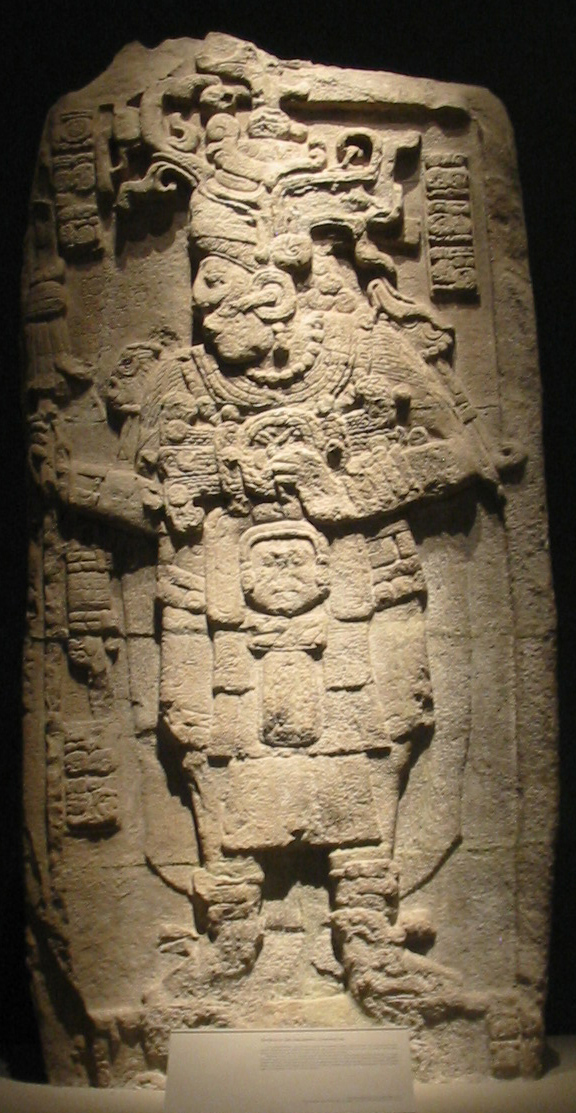 Stele 51 from Calakmul, representing king Yuknoom Took' K'awiil, on display at the National Museum of Anthropology in Mexico City.